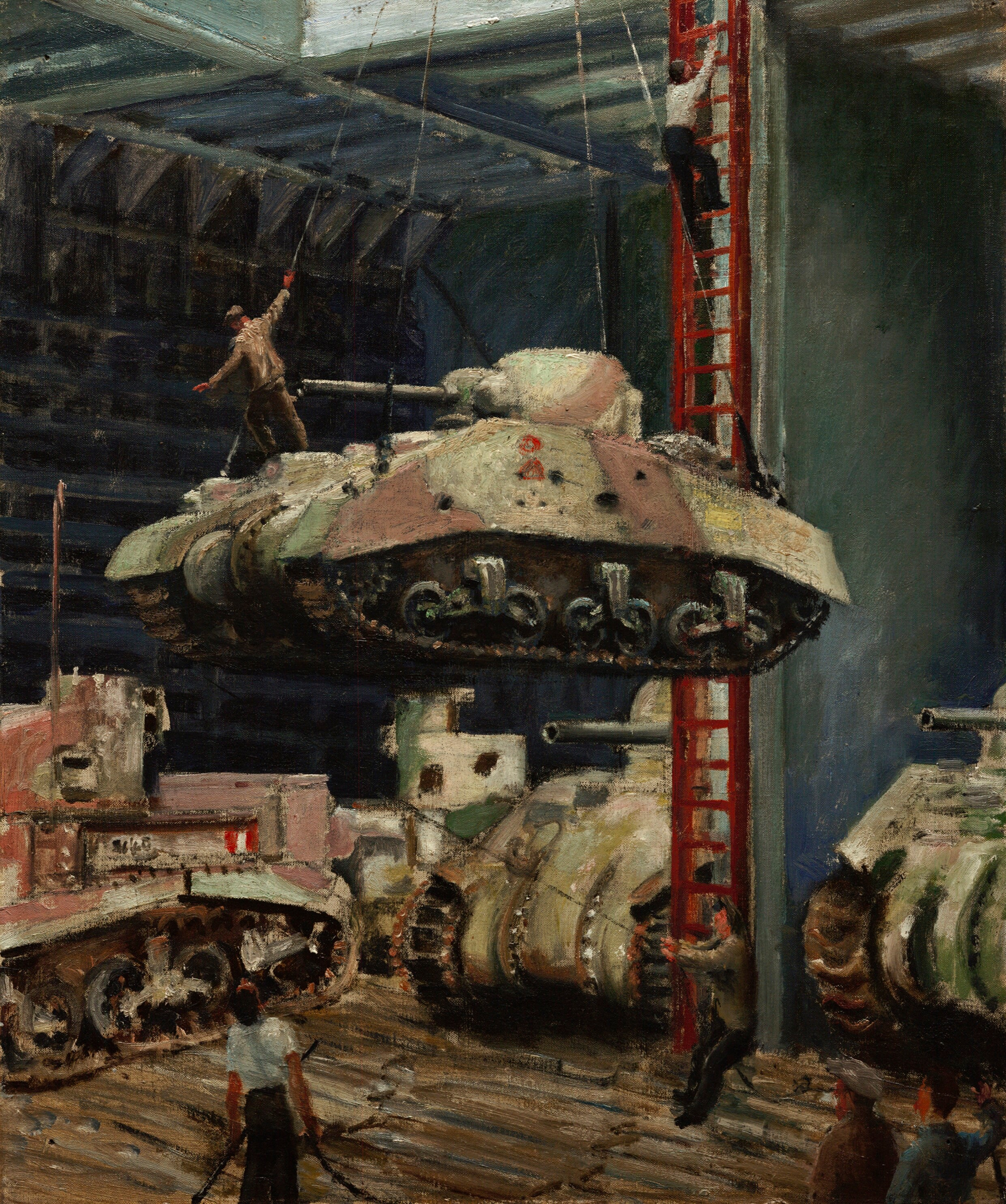 Damaged Tanks being Lowered into the Hold of a Merchant Ship image: a view inside the hold of a merchant ship, looking up towards a tank being lowered down through a hatch. One man is standing on the tank as it is lowered, another guides it down with a rope. There are several onlookers standing amongst other damaged tanks already in the hold.